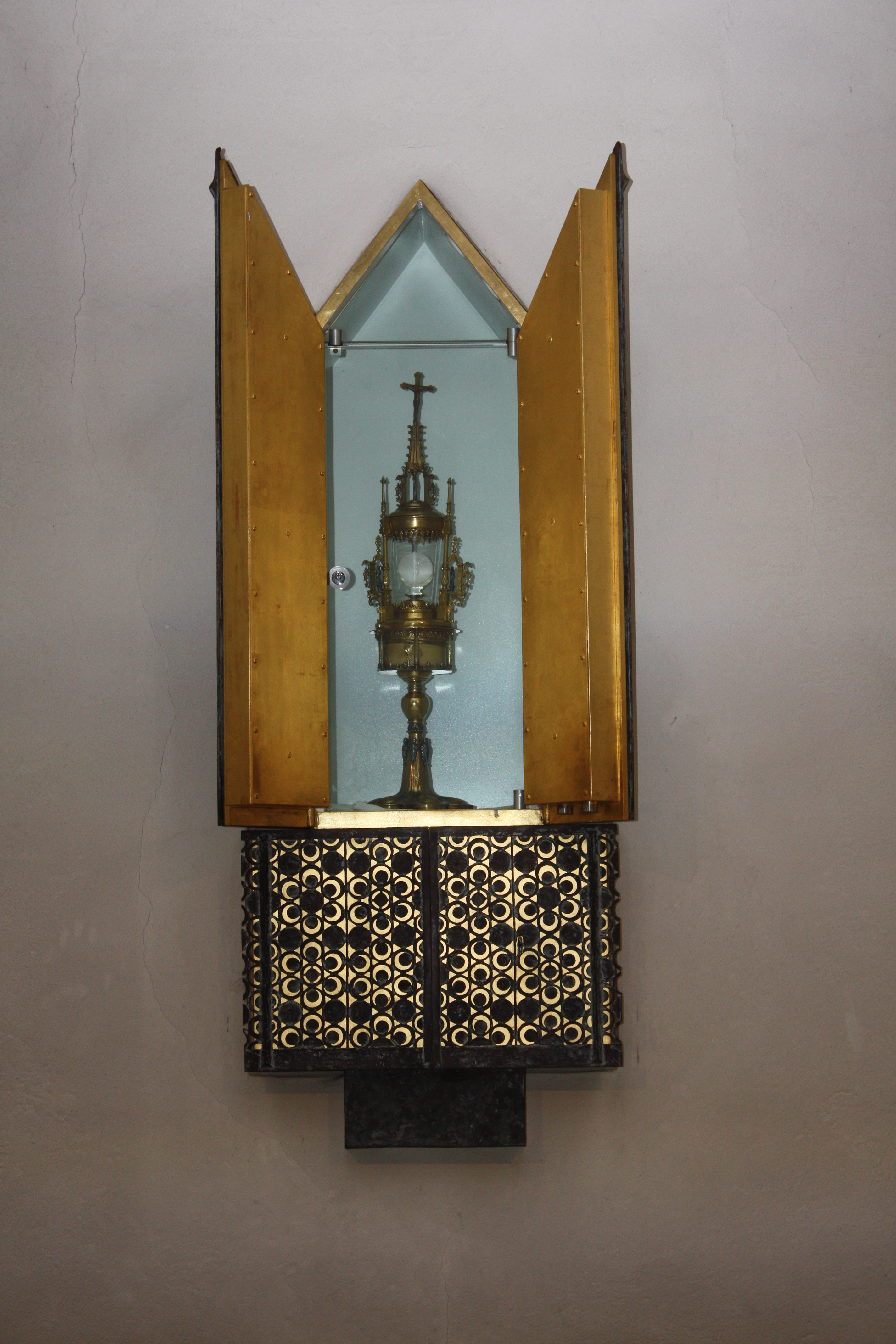 A geocoded location could be added to this image. Visit Commons:Geocoding for information on how to add coordinates. Beta-test: Add coordinates helps to determine coordinates. Monstranz in der Wallfahrtskapelle im Kloster Rulle